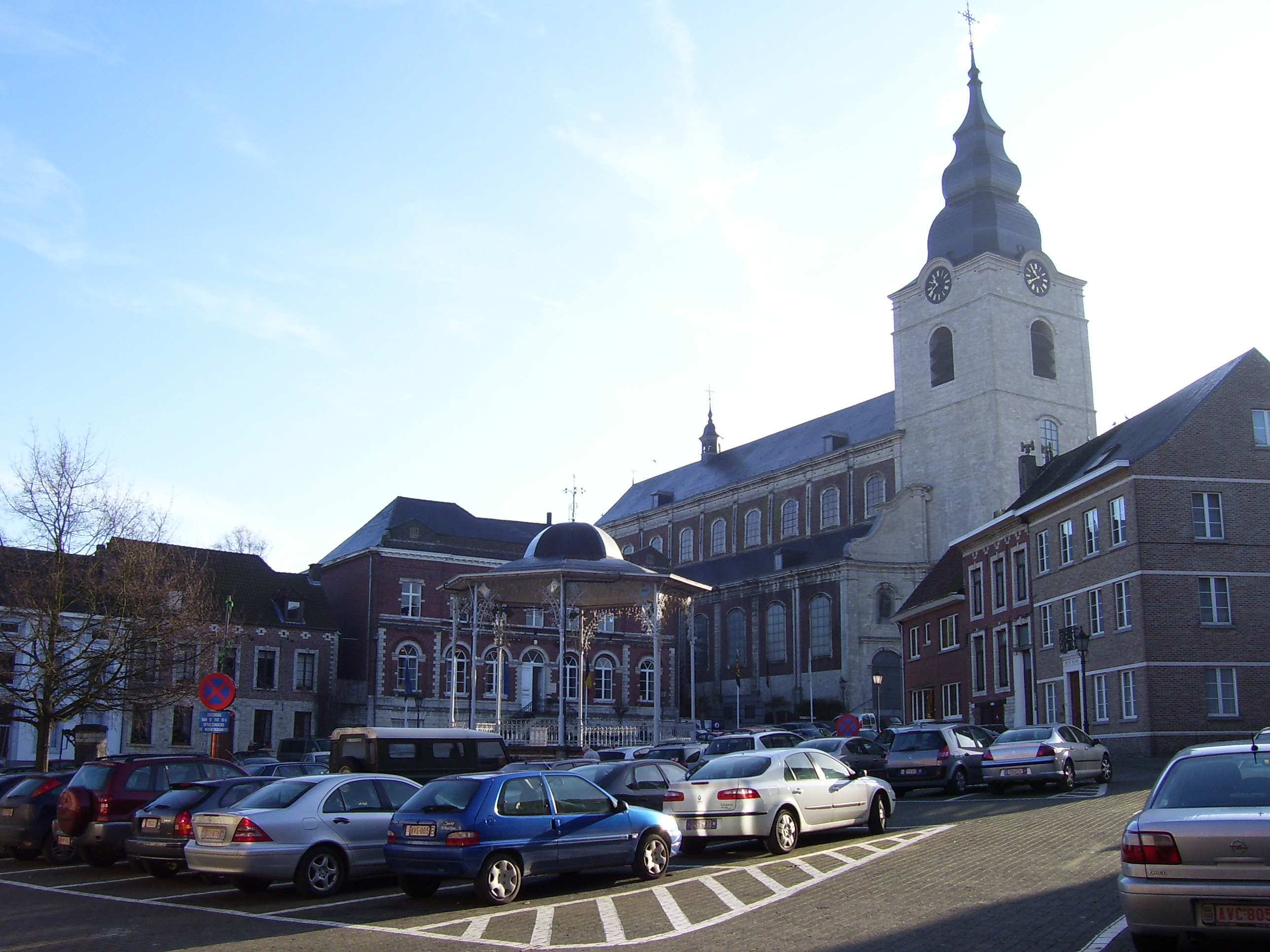 Gemeenteplein (square) with Gemeentehuis (municipality) and Sint-Gorgoniuskerk (church) of Hoegaarden, Belgium